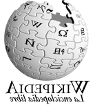 The Spanish Wikipedia logo inverted for an article